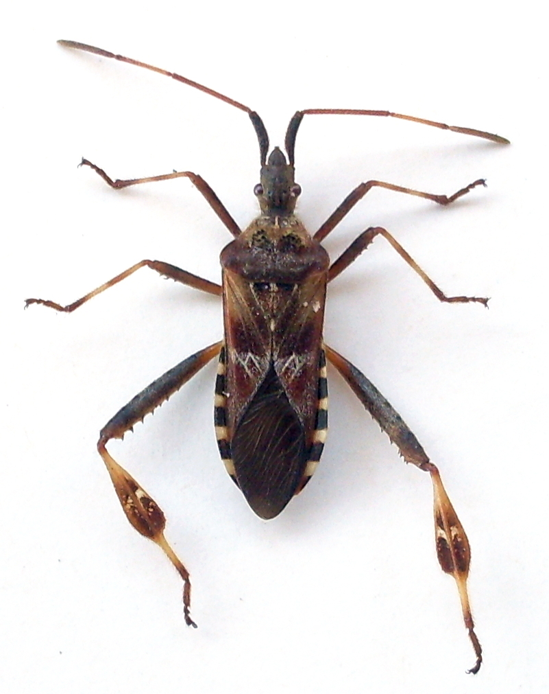 Leptoglossus occidentalis (Rhynchota: Coreidae). Specimen caught at night near small plantations of Pinus pinea in Agricultural and Environment Professional Institute Cettolini of Villacidro (Sardinia, Italy)